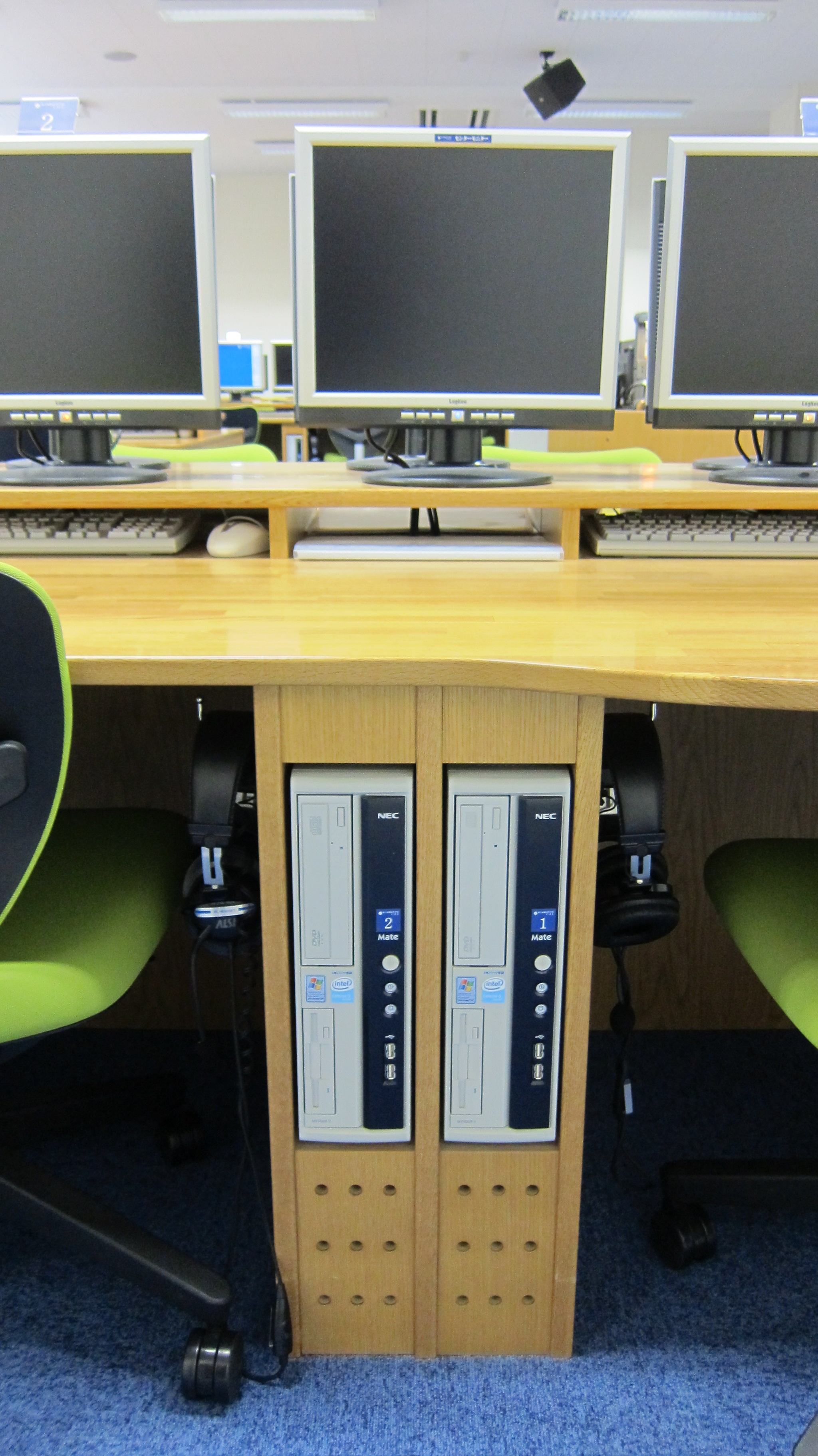 Japanese High school Language Lab close up